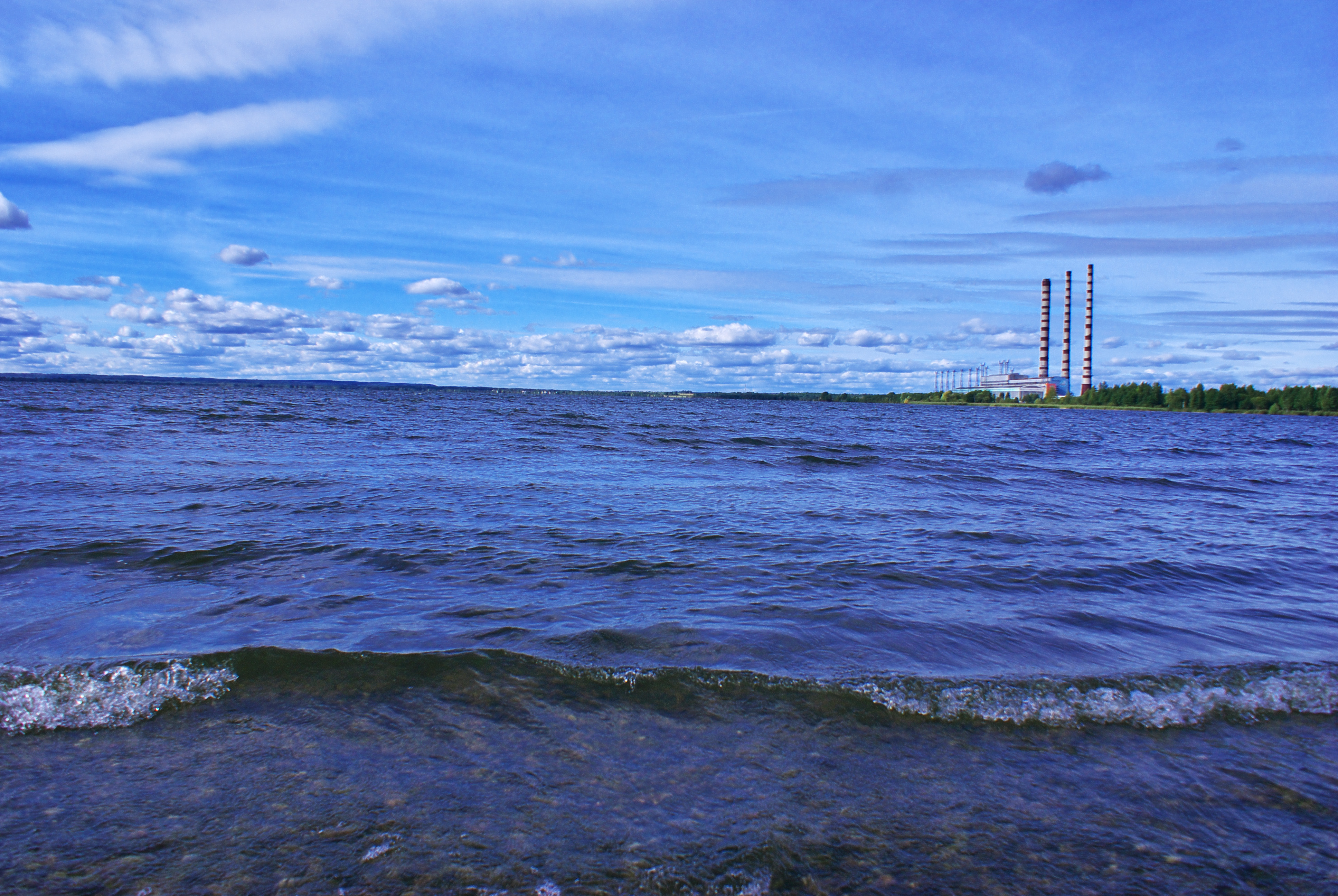 Lukoml power station Беларуская (тарашкевіца): Лукомальская ДРЭС